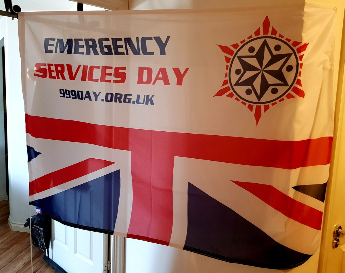 999 Day takes place across the United Kingdom on 9th September each year. This is a photo of the English version of the official 999 Day flag which is flown across the UK to enable supporters of the emergency services to show their support for those who serve.